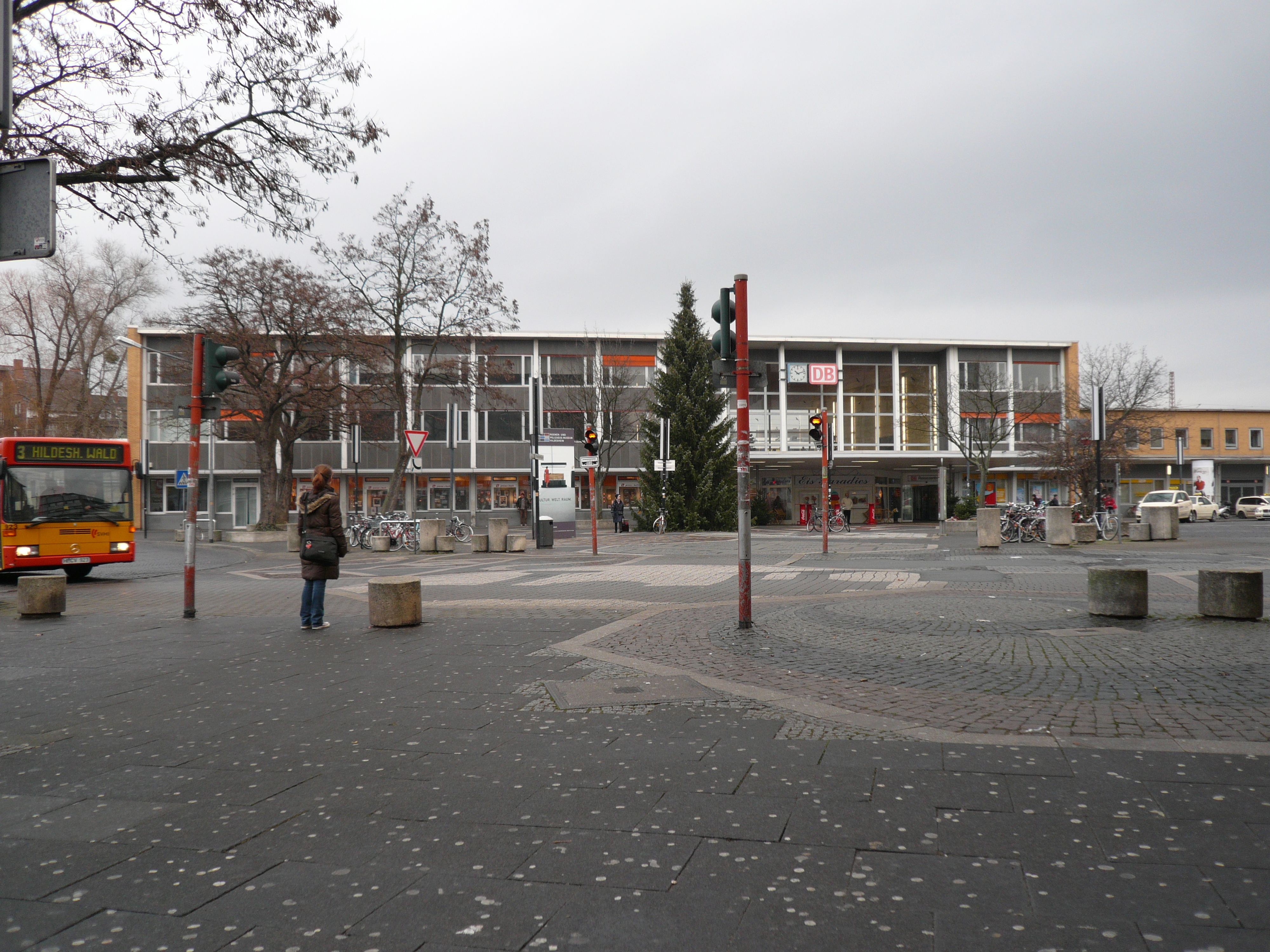 Hildesheim train station